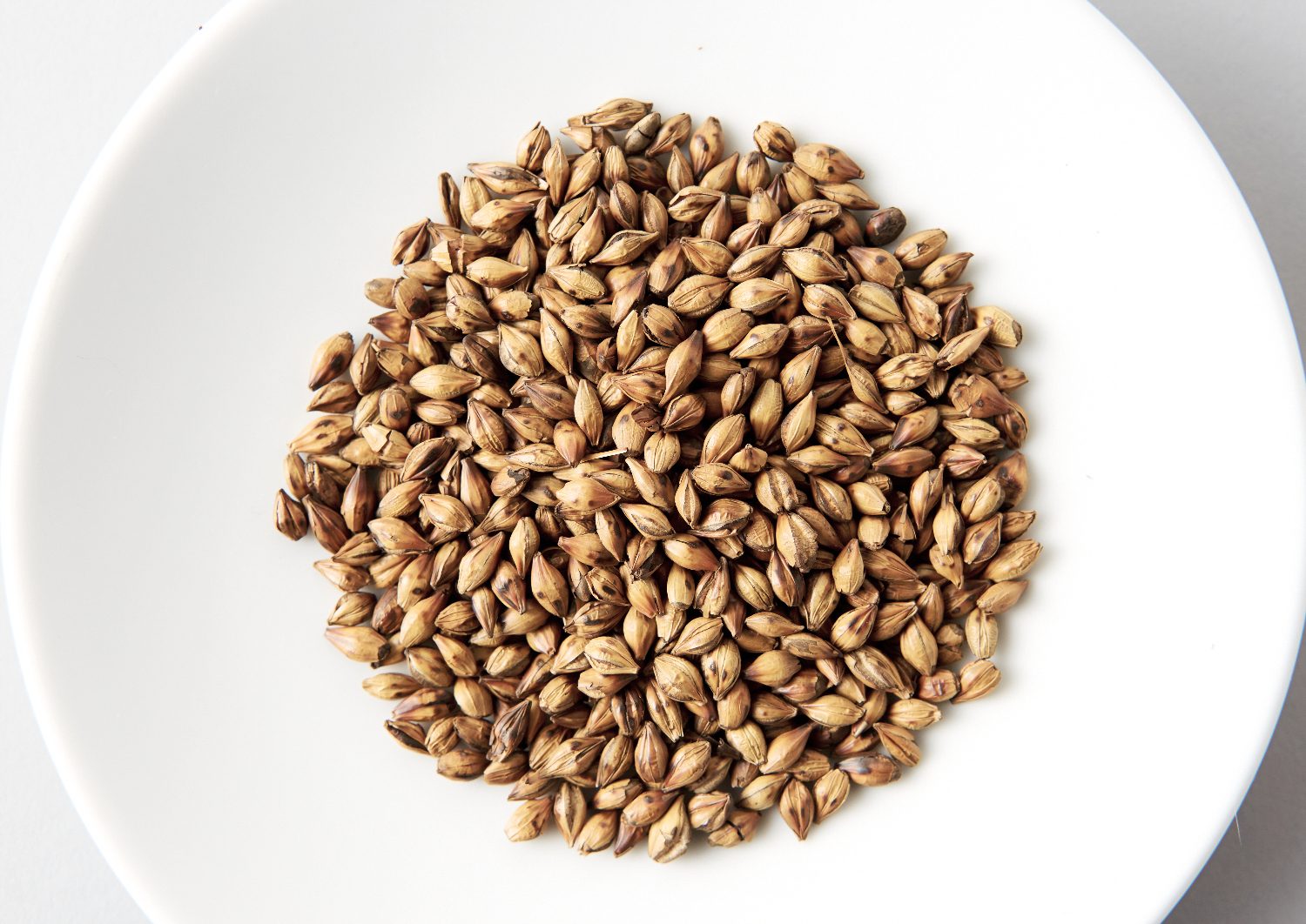 Hulless barley